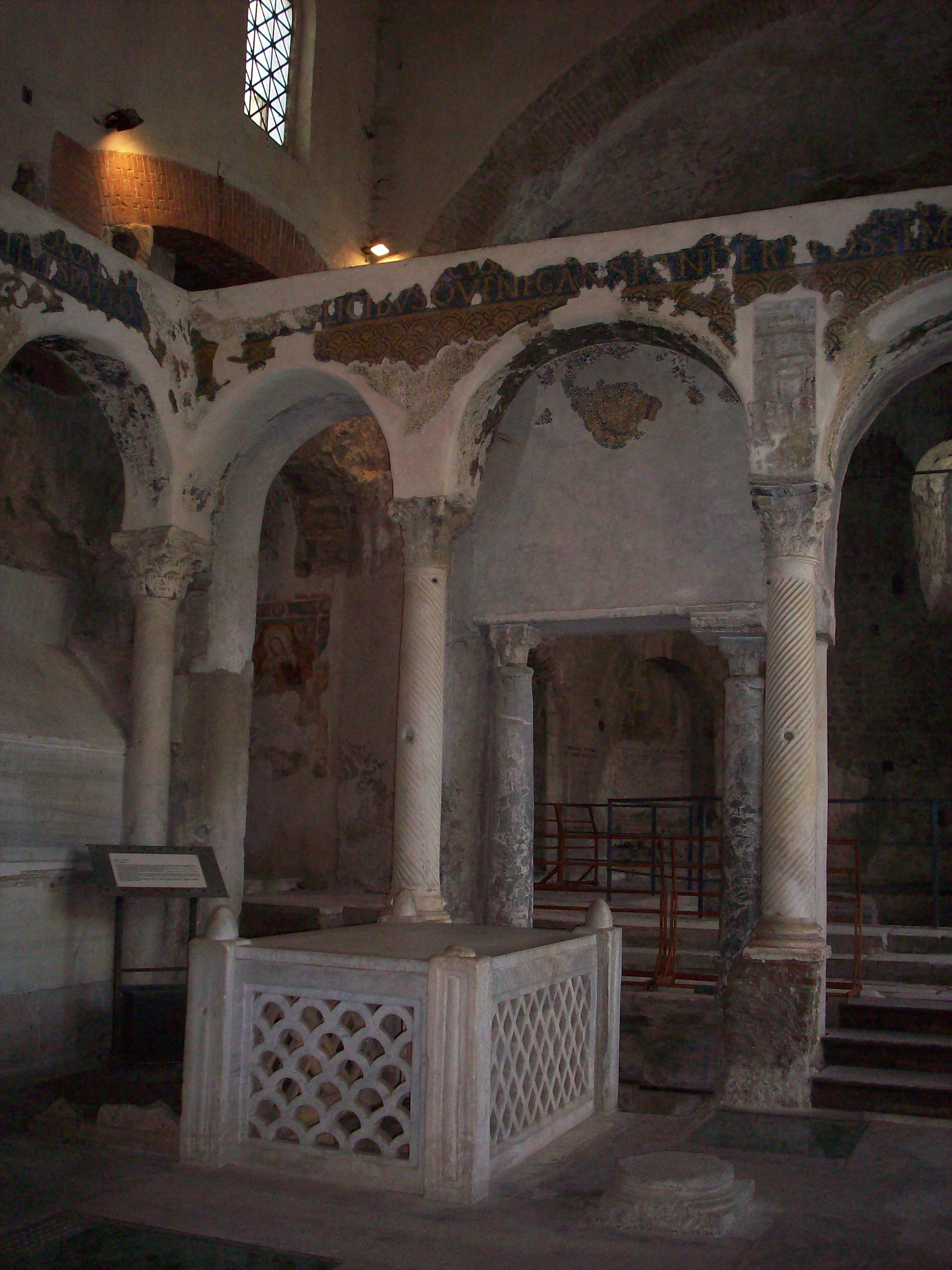 The tomb of Felix of Nola in Cimitile, Campania, Italy